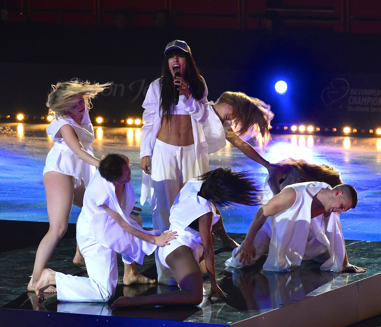 "Art on Ice" at the Globe Arena in Stockholm, March 13, 2014.